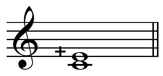 Ditone (Pythagorean major third) on C = E+ (Ben Johnston's notation). 81:64 = 407.82 cents. Limit: 3-limit. 81st harmonic.